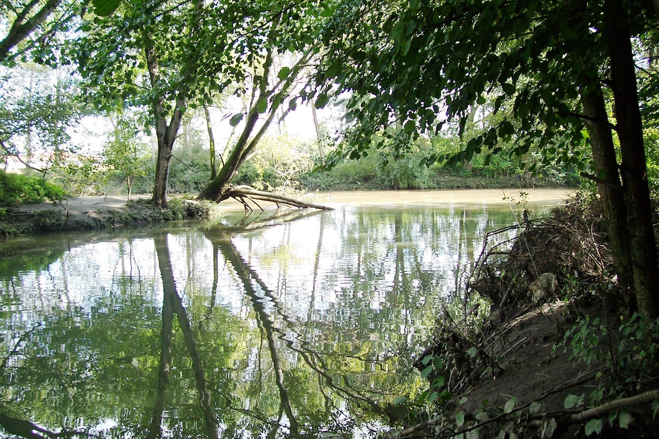 Vettabbia canal ended in Lambro river near Melegnano